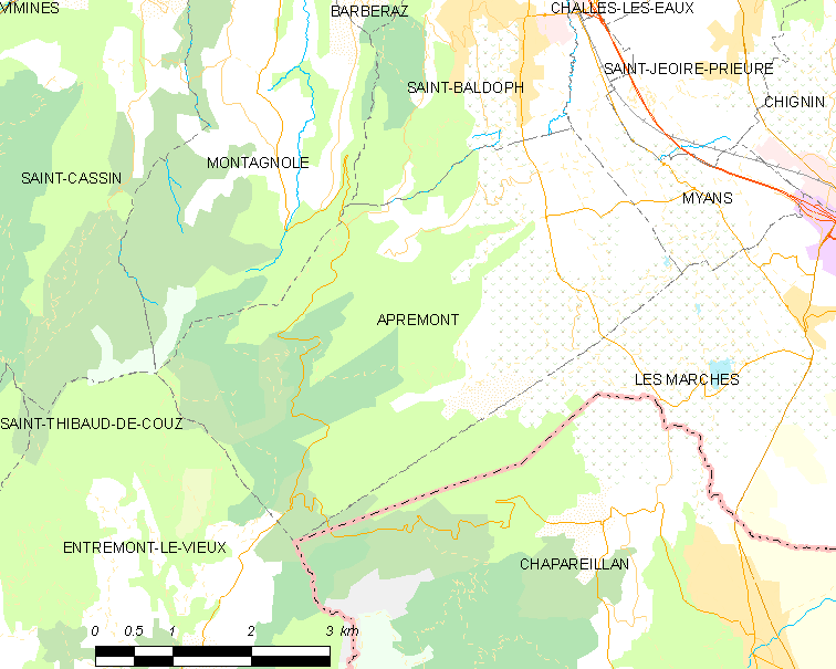 Map of French municipality